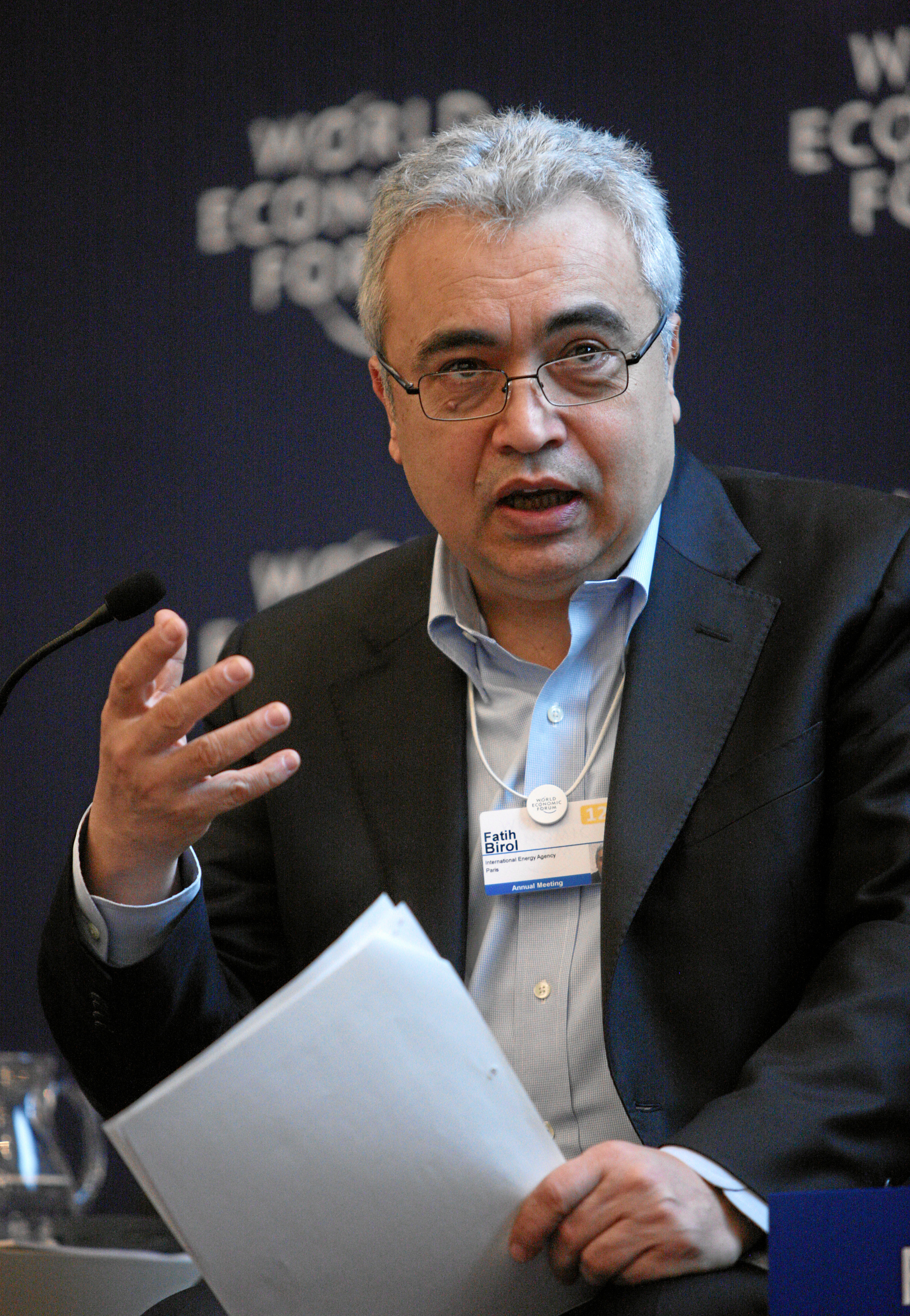 DAVOS/SWITZERLAND, 25JAN12 - Fatih Birol, Chief Economist, International Energy Agency, Paris; Global Agenda Council on Energy Security captured during the session 'The Global Energy Context' at the Annual Meeting 2012 of the World Economic Forum at the congress centre in Davos, Switzerland, January 25, 2012.. . Copyright by World Economic Forum. by Remy Steinegger